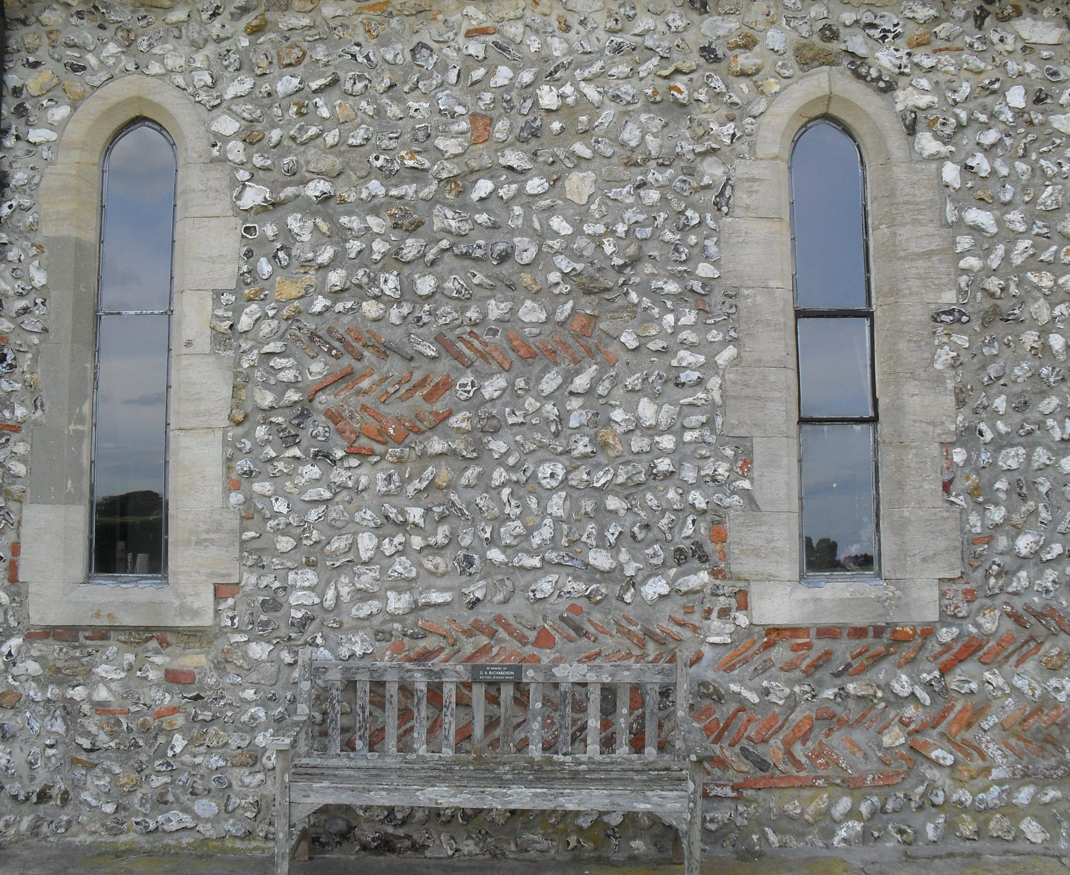 St George's Church, Eastergate, Arun District, West Sussex, England. The ancient parish church of Eastergate. This view shows Norman-era herringbone brickwork in the chancel wall. Listed at Grade II* by English Heritage (NHLE Code 1233516)